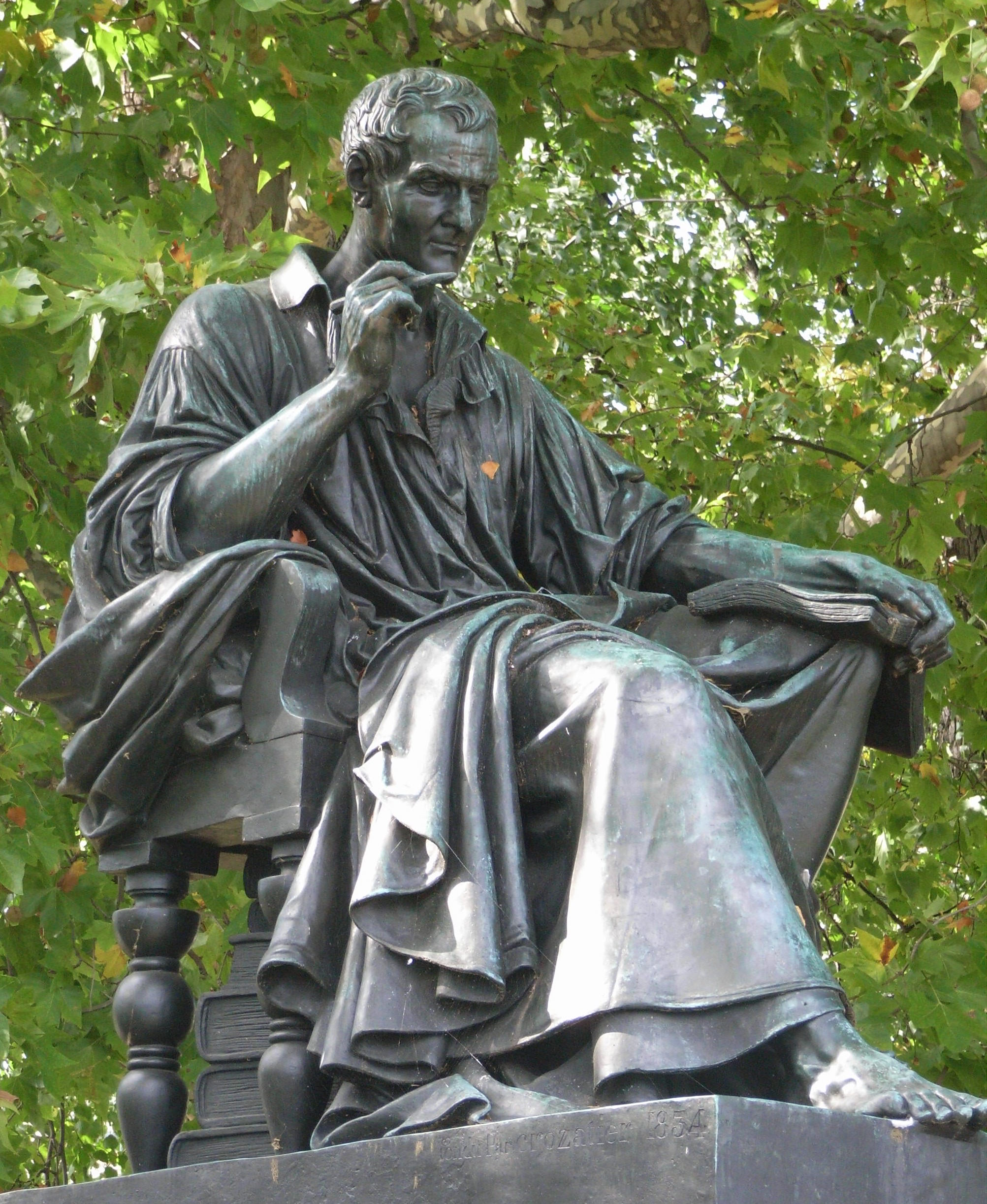 Picture of statue